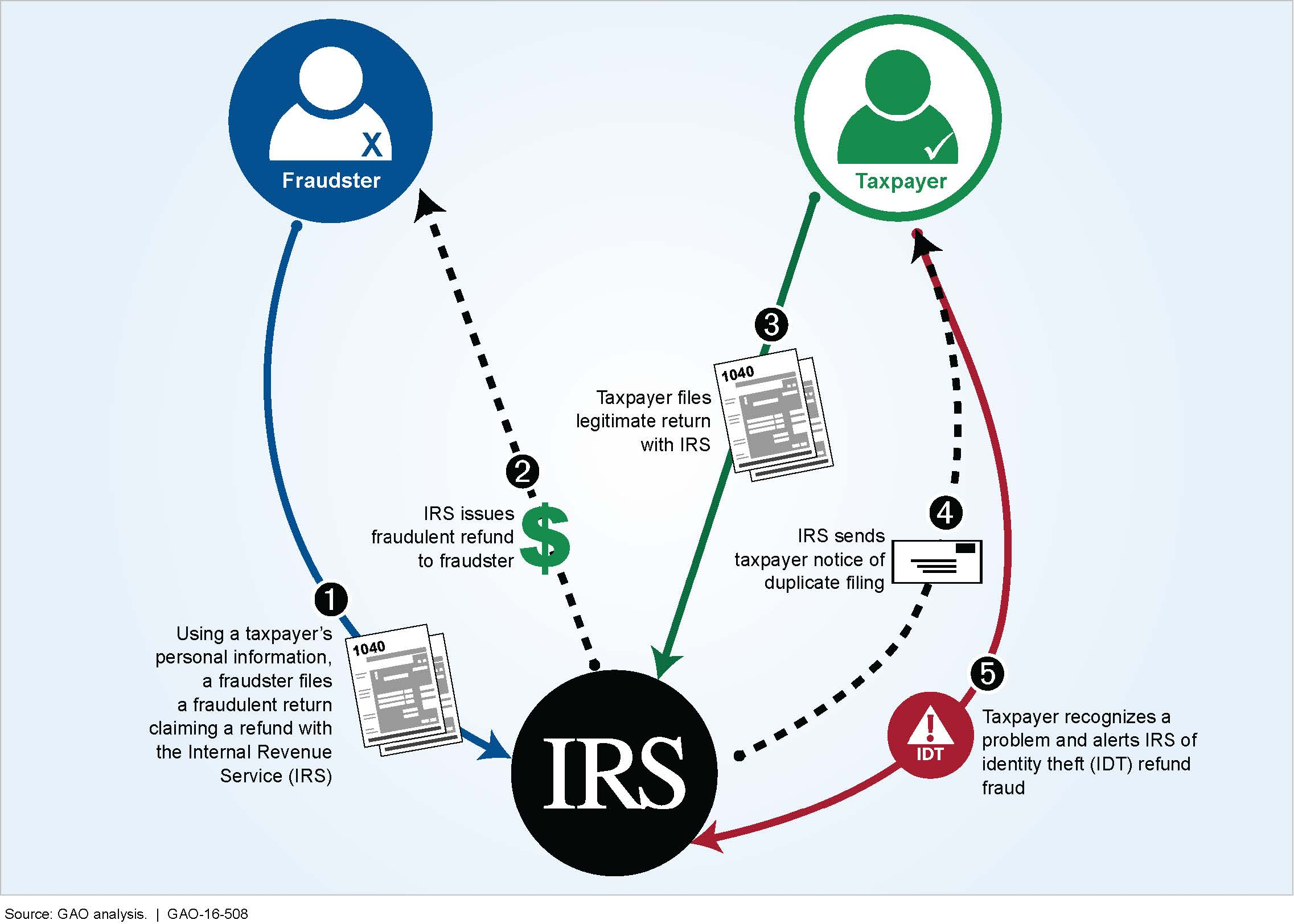 This image is excerpted from a U.S. GAO report: IDENTITY THEFT AND TAX FRAUD: IRS Needs to Update Its Risk Assessment for the Taxpayer Protection Program Note: This figure's numbering shows the order in which events occur when fraudsters successfully commit IDT refund fraud.